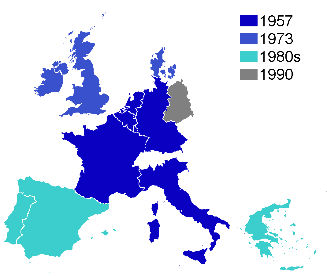 Founders ('50s) First enlargement ('73) Mediterranean enlargement ('80s) Eastern Germany (1990)